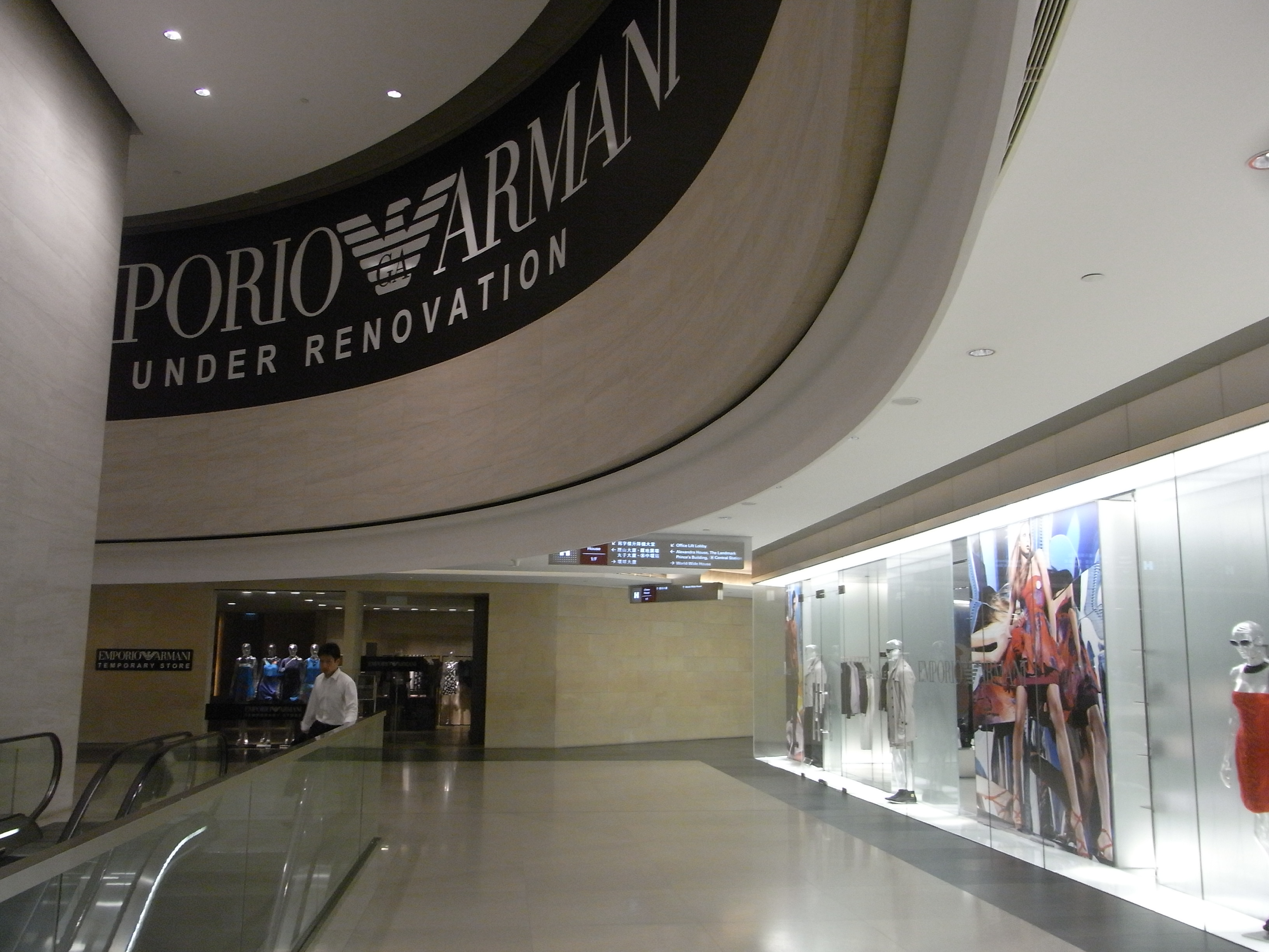 中環